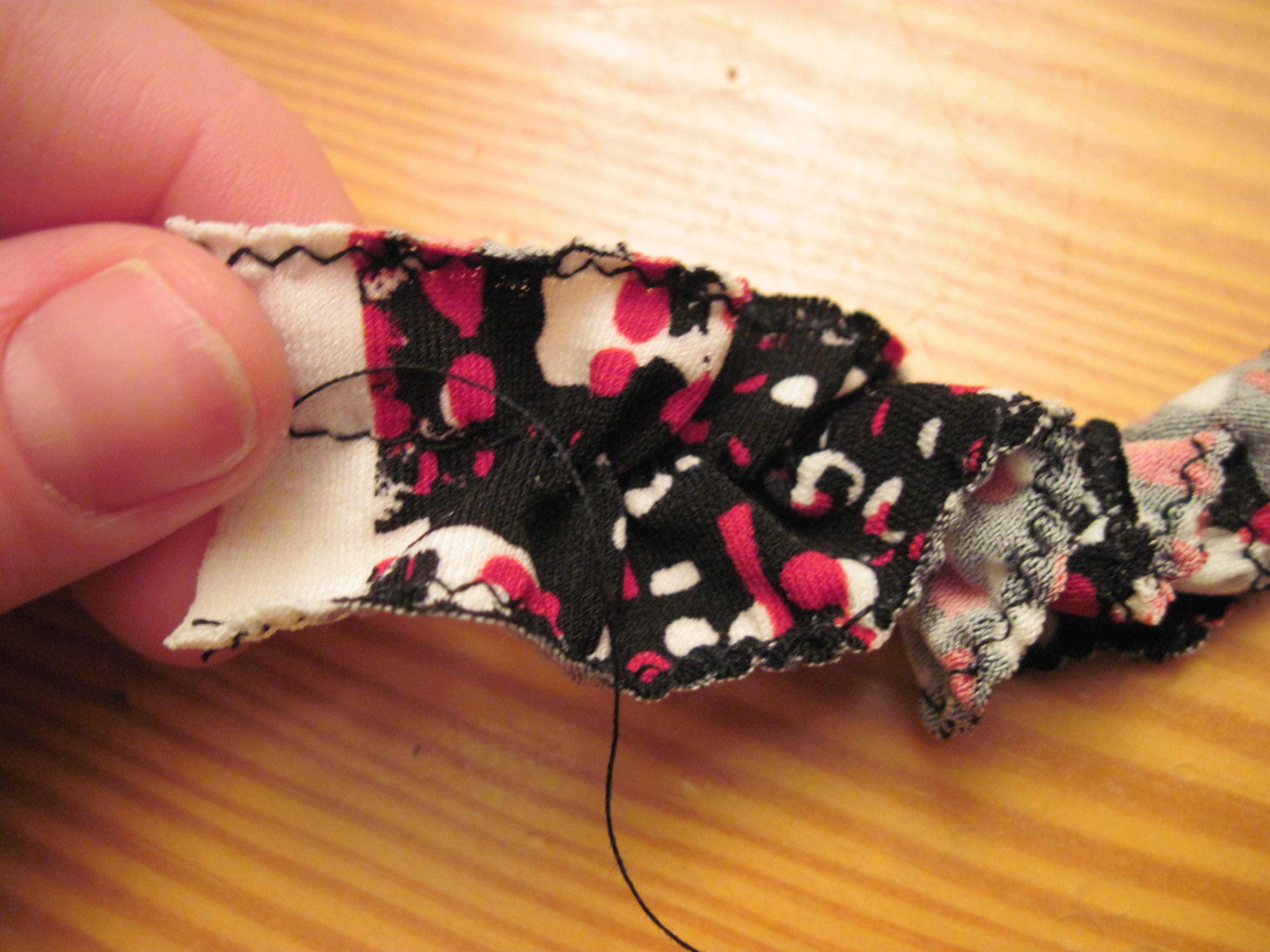 Gathering a ruche by stitching down the centre of a fabric strip, then pulling the end of the thread to creating the ruching.